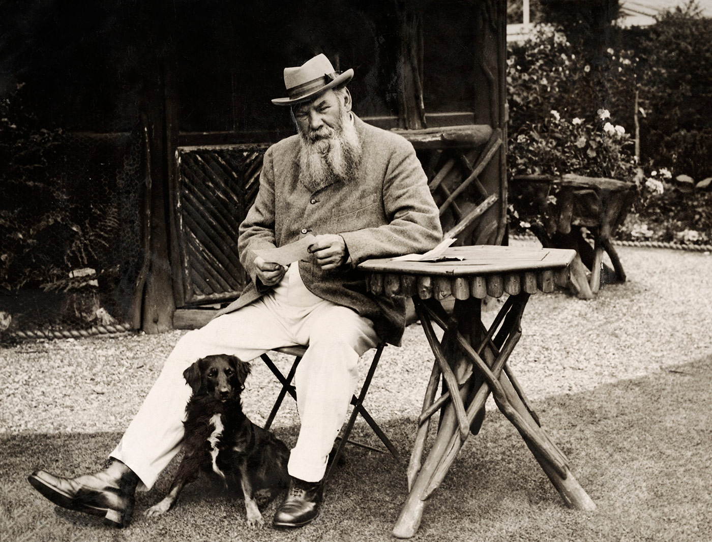 English cricketer W.G. Grace on his 66th. birthday.